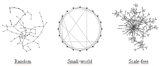 Three types of complex networks.